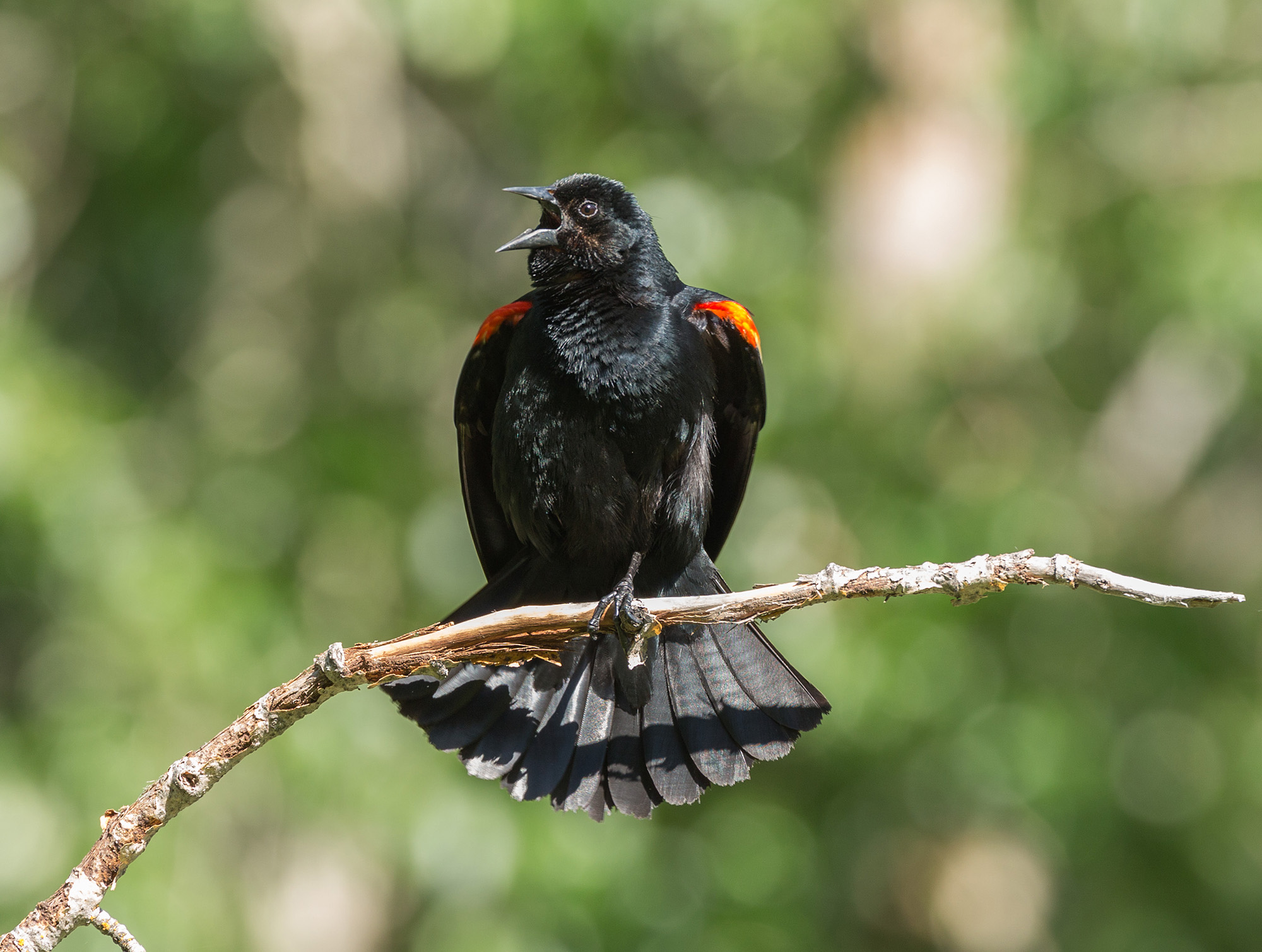 A male Agelaius phoeniceus calling, probably in alarm at my presence, in Yosemite National Park, CA, USA.